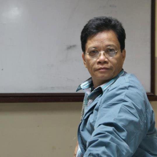 Bong is an impressionist Filipino artist